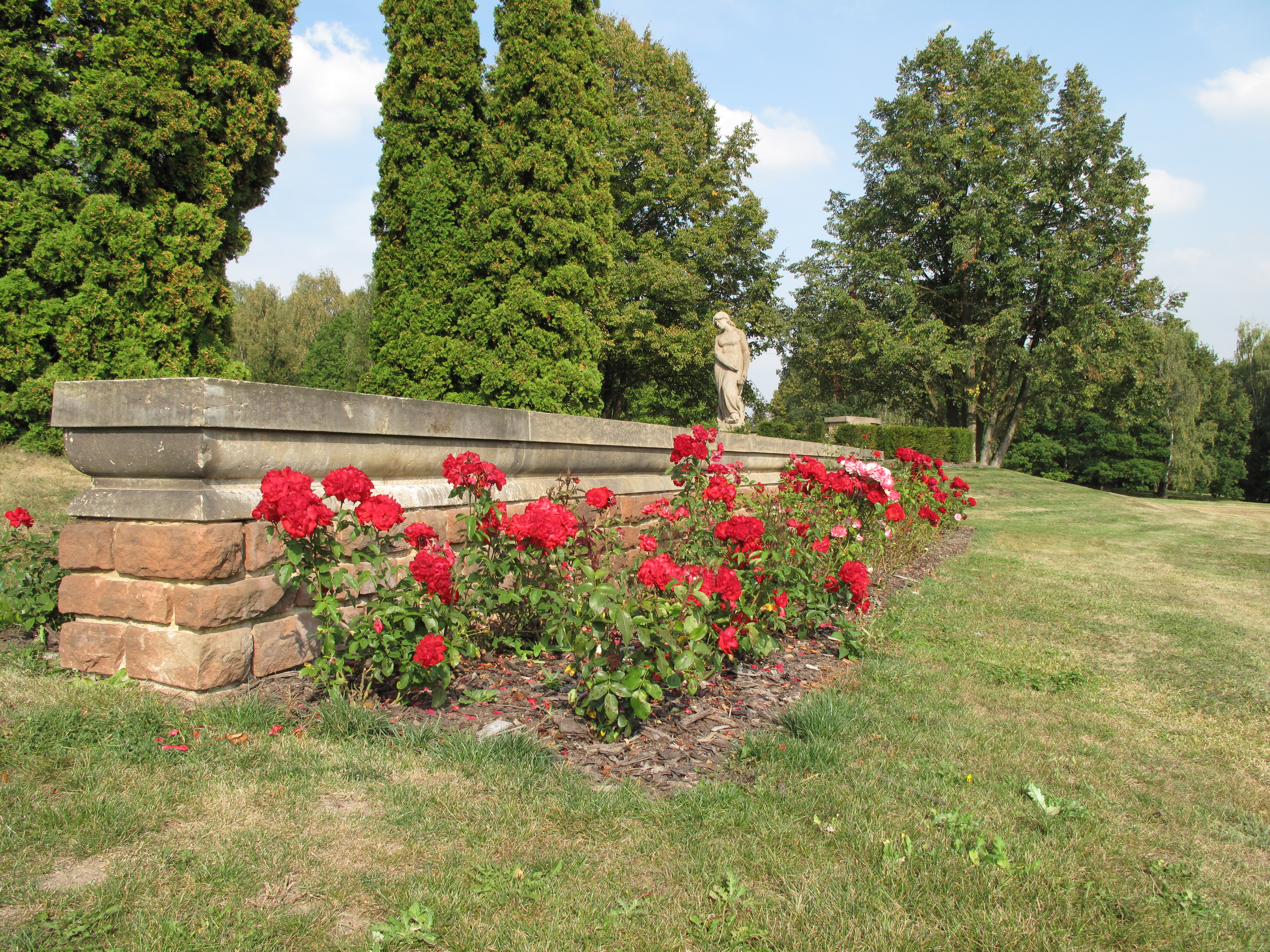 Rest of the wall of the garden in Horák farm, where June 10, 1942 male inhabitants of Lidice were shot.